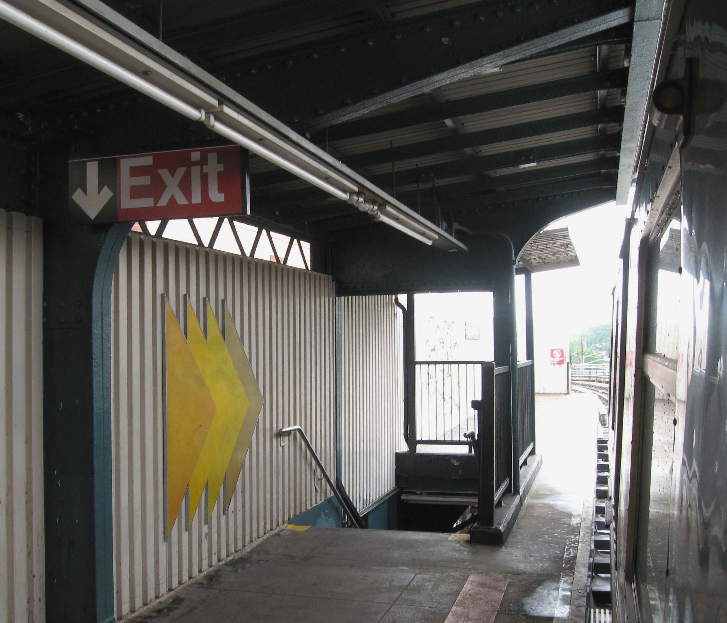 Looking south at western exit stair of northbound platform of Cypress Hills (BMT Jamaica Line) on a rainy midday.